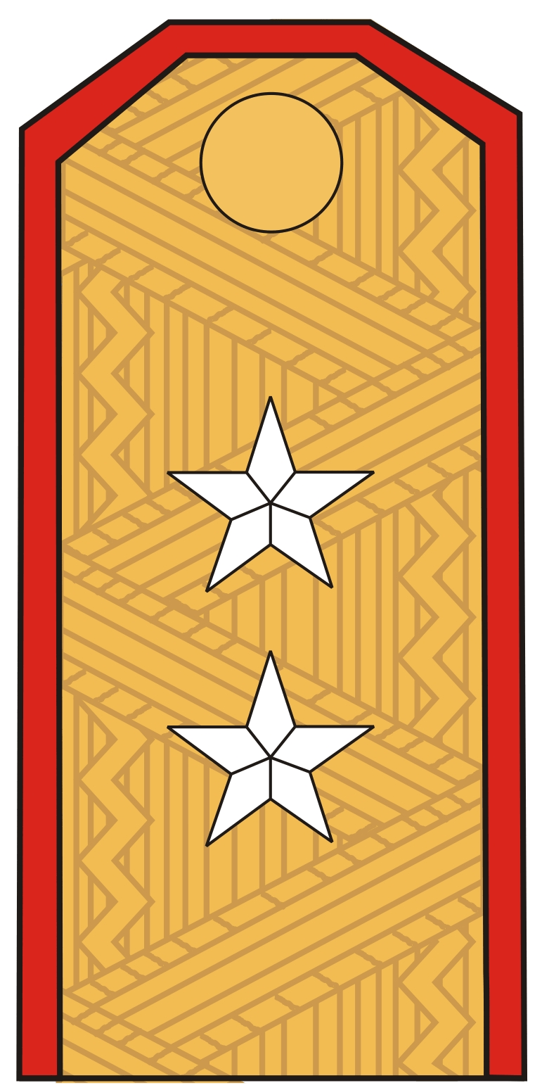 Russian rank insignia (1943-1945), here "Lieutenant general" (OF7) – shoulder strap Army (infantry, motorized infantry) field uniform, color khaki.